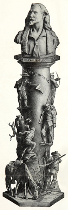 Photogravure of August Zeller's 1905 bust and pedestal of Captain Jack Crawford.